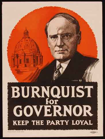 Election poster for Joseph A.A. Burnquist. From 1918. Poster Collection, Political poster 1918. Location no. J2 1918 b1.